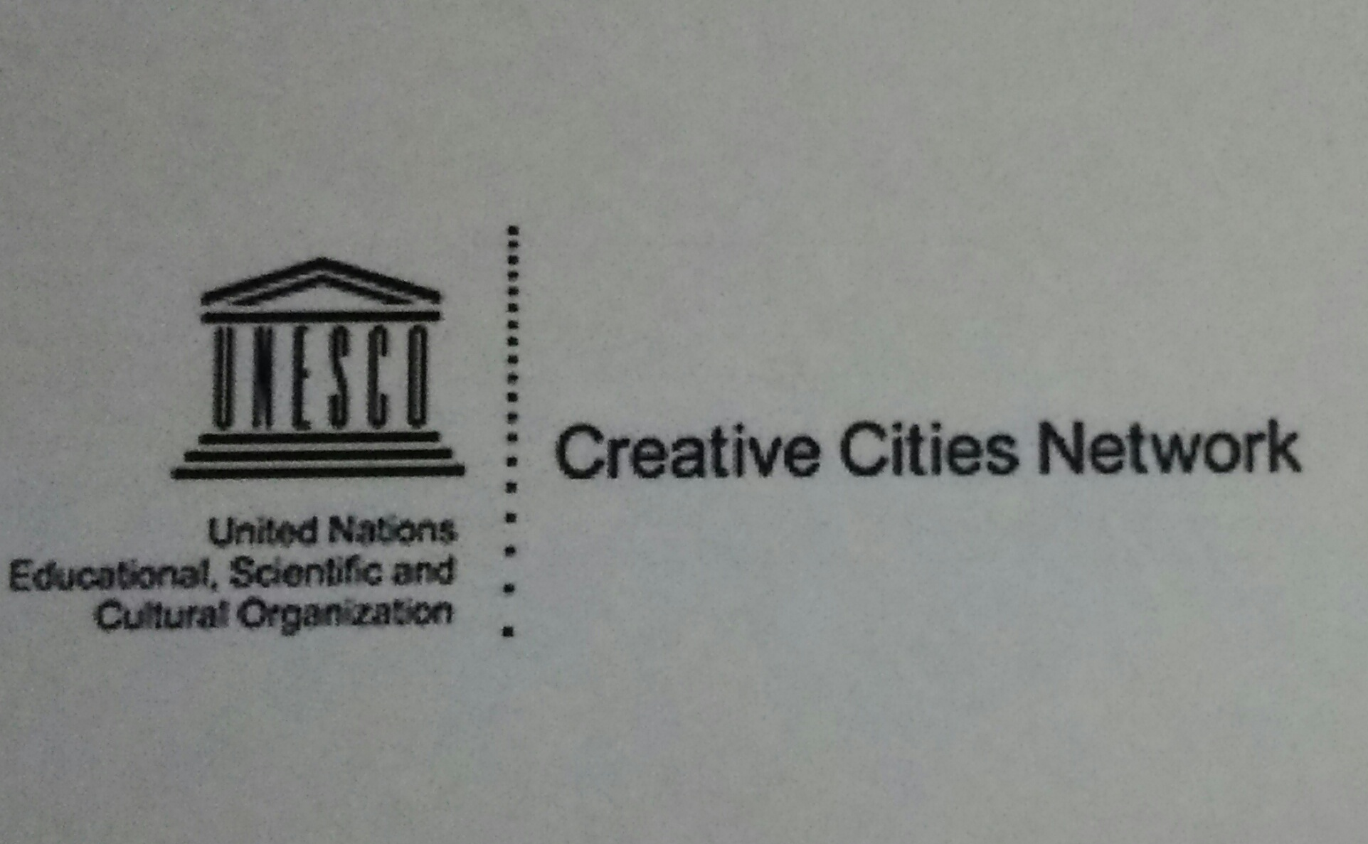 Creative City network logo in Yokohama Creative-city Center